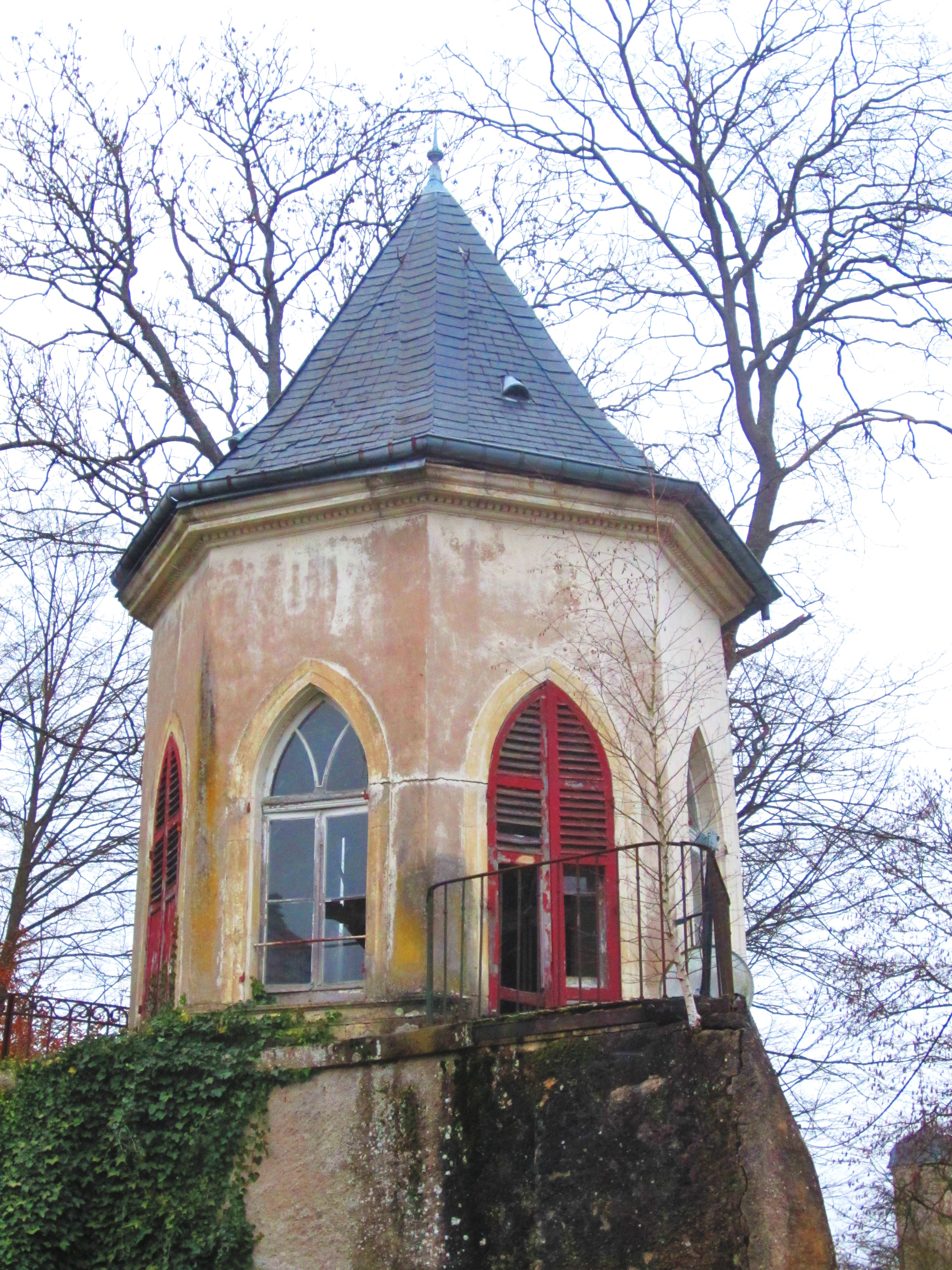 Dornot castle turret in the garden